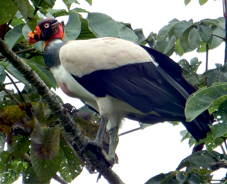 Birds observed within the Karen Mogensen Reserve. Sarcoramphus papa (Cathartidae), species resident in the area, with declining populations and considered locally threatened